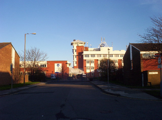 North Tyneside College. The entrance to North Tyneside College, which has expanded considerably since the photographer attended many years ago. The design of the main building is supposed to be redolent of a ship - maybe it is if you squint. You do not have to squint if you see it from the other side of the college when you are driving along the Coast Road towards Newcastle - it looks (with some imagination) like a ship heading down towards the Tyne. It was designed by the Newcastle Architect Jane Derbyshire at the request of the then College Principal, Paul Harvey.